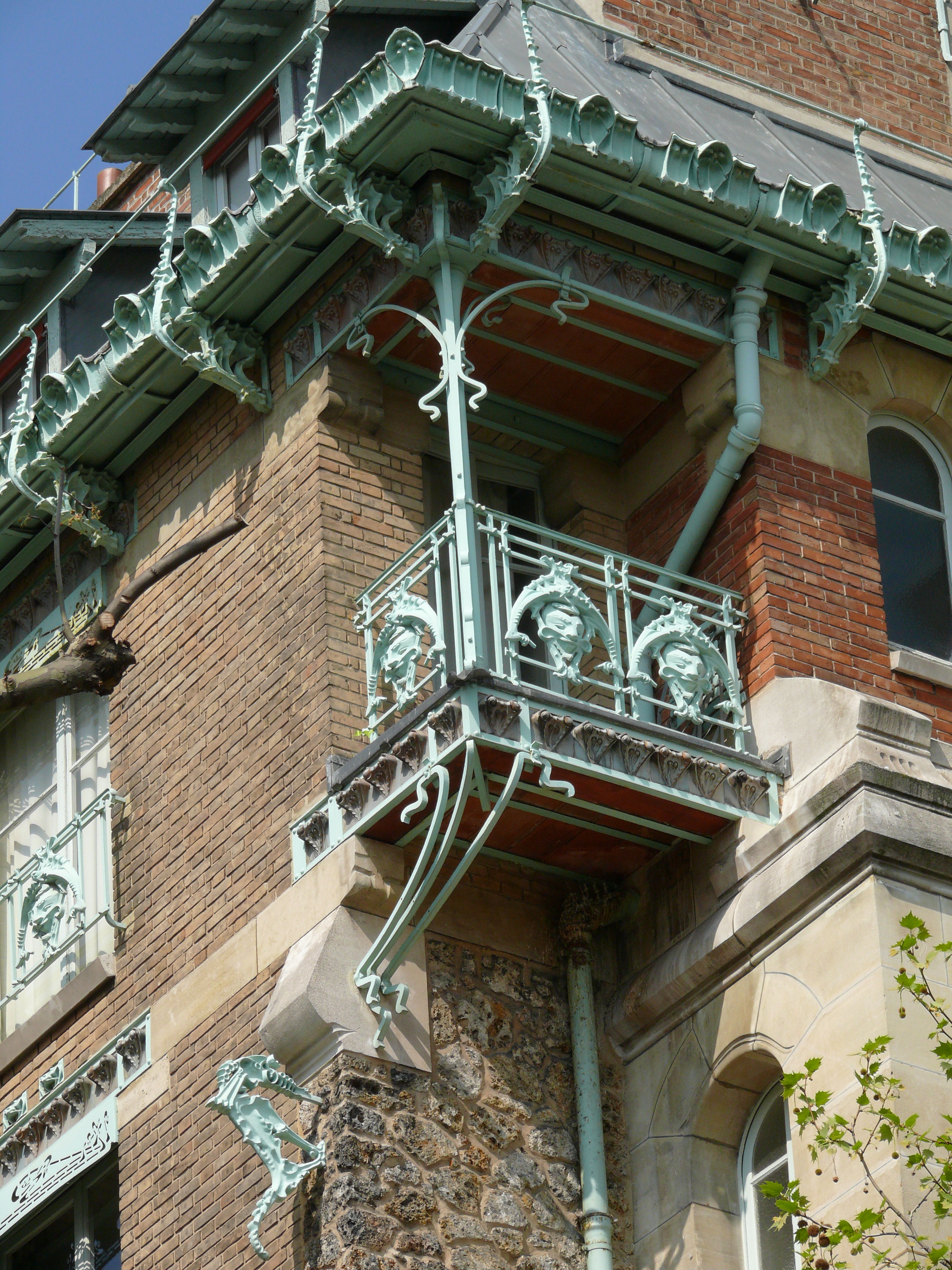 Art Nouveau wrought iron balconies — of Castel Béranger, Paris. Design by Hector Guimard.